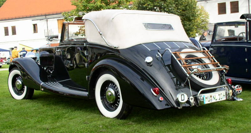 1936 Railton Straight Eight